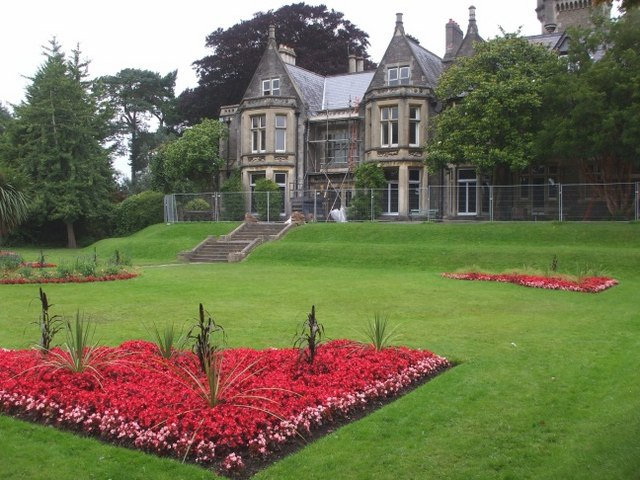 Insole Court, Llandaff, Cardiff The building, owned by Cardiff Council, has been derelict for some time, but work is now being done on it.